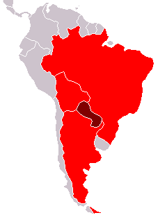 Countries where is spoke the Guarani language - in red there's the countries that have signifcative communities of people that speak Guarani and in dark red, the country that has as oficial language the Guarani (Paraguay).